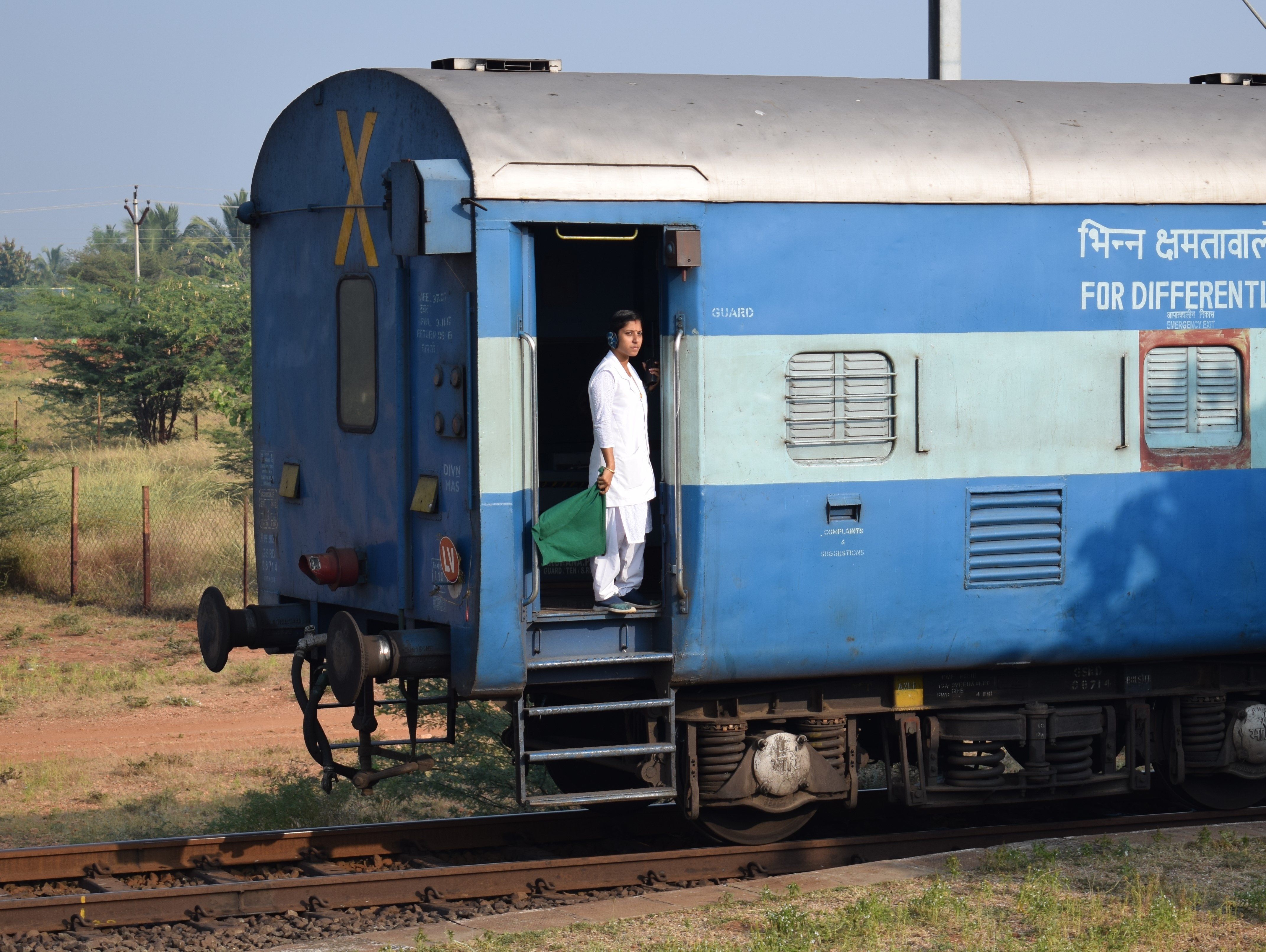 An Indian train woman guard/conductor ready to exchange a green flag with the loco pilot signalling an all-ready and a go-ahead for the train's departure.